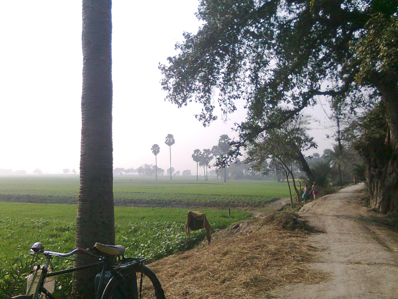 Kalyanpur village lands of farms